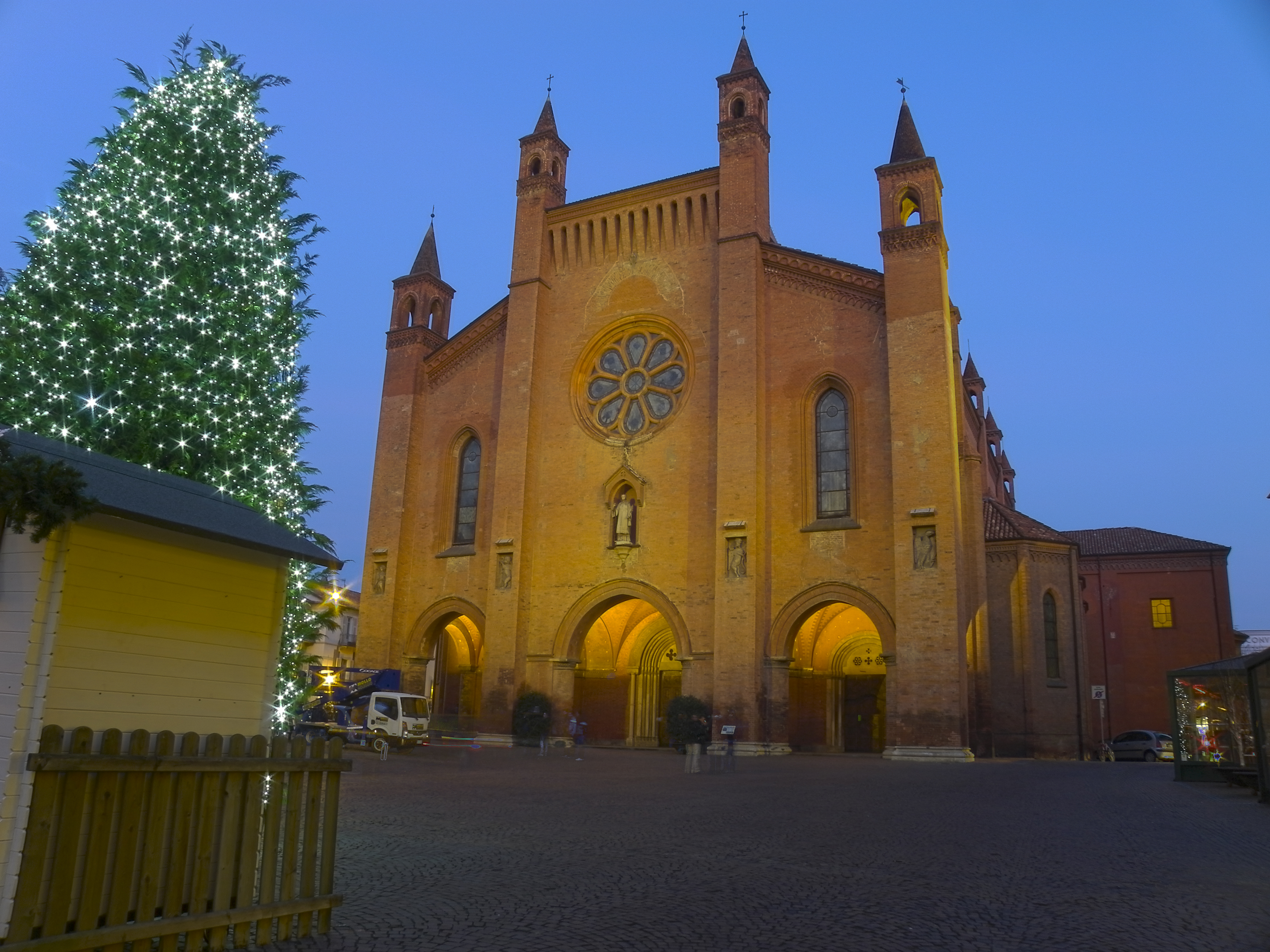 San Lorenzo Cathedral